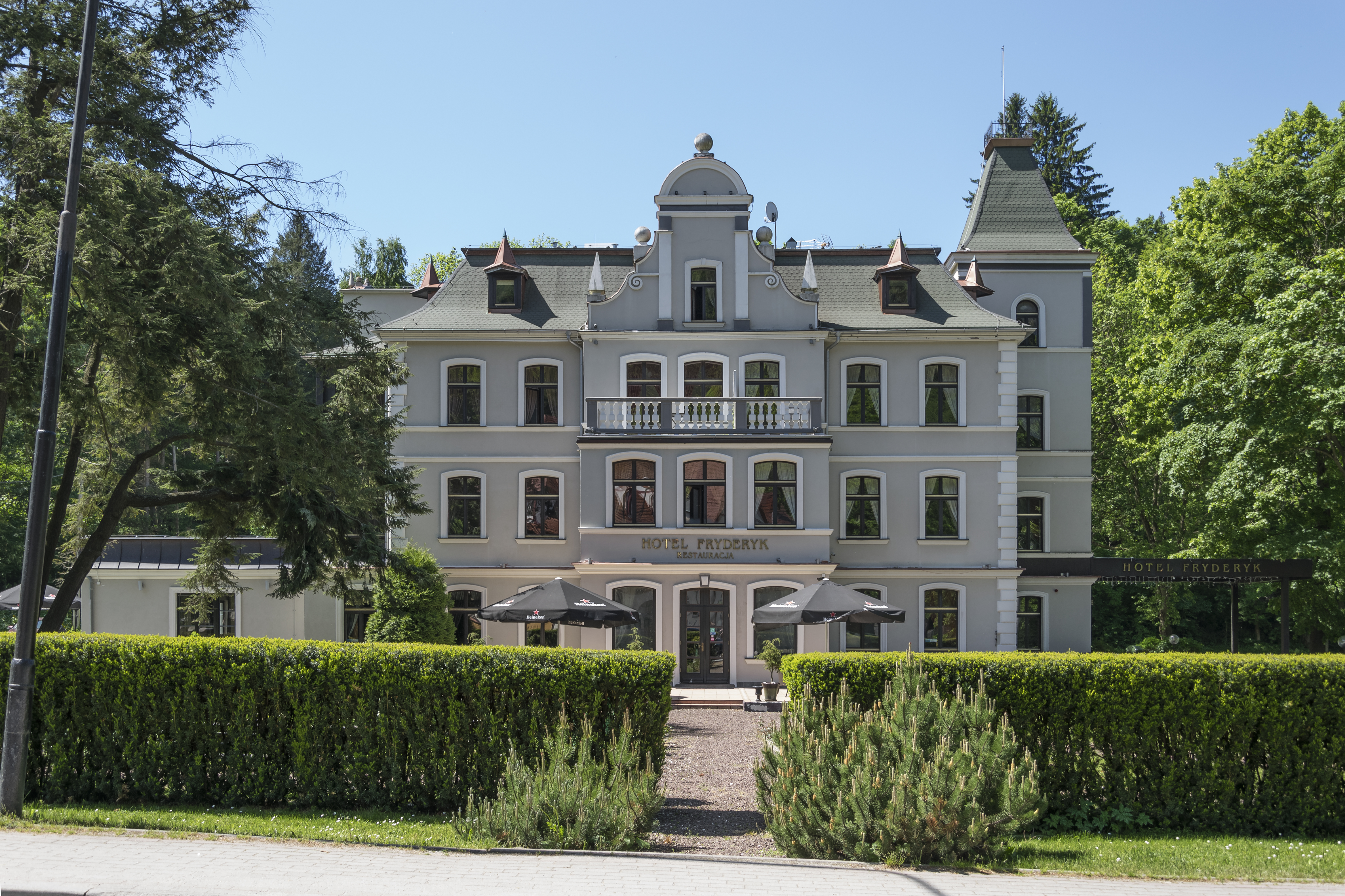 Fryderyk Hotel in Duszniki-Zdrój